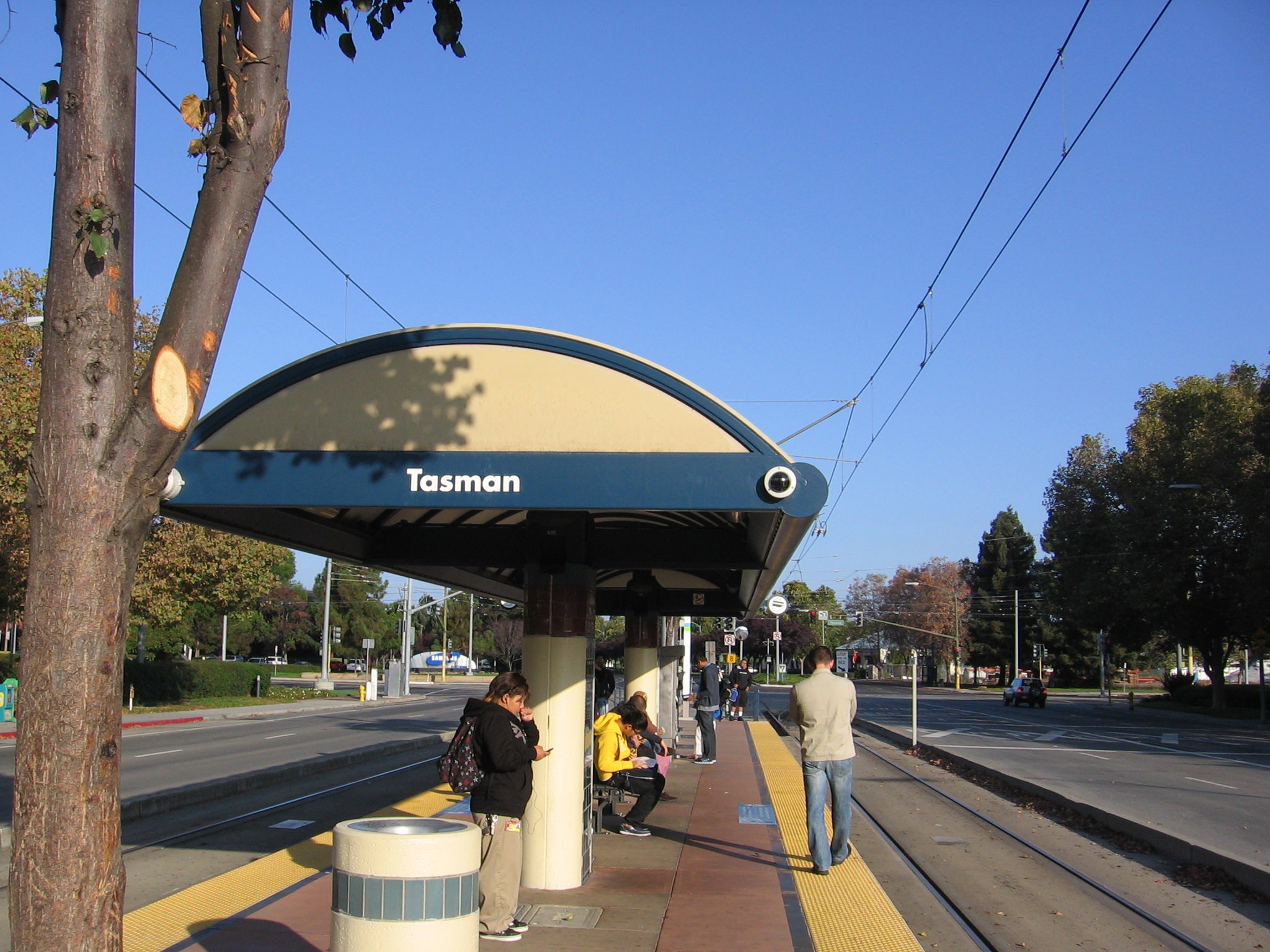 The Tasman (VTA) light rail station in San José, California, USA.